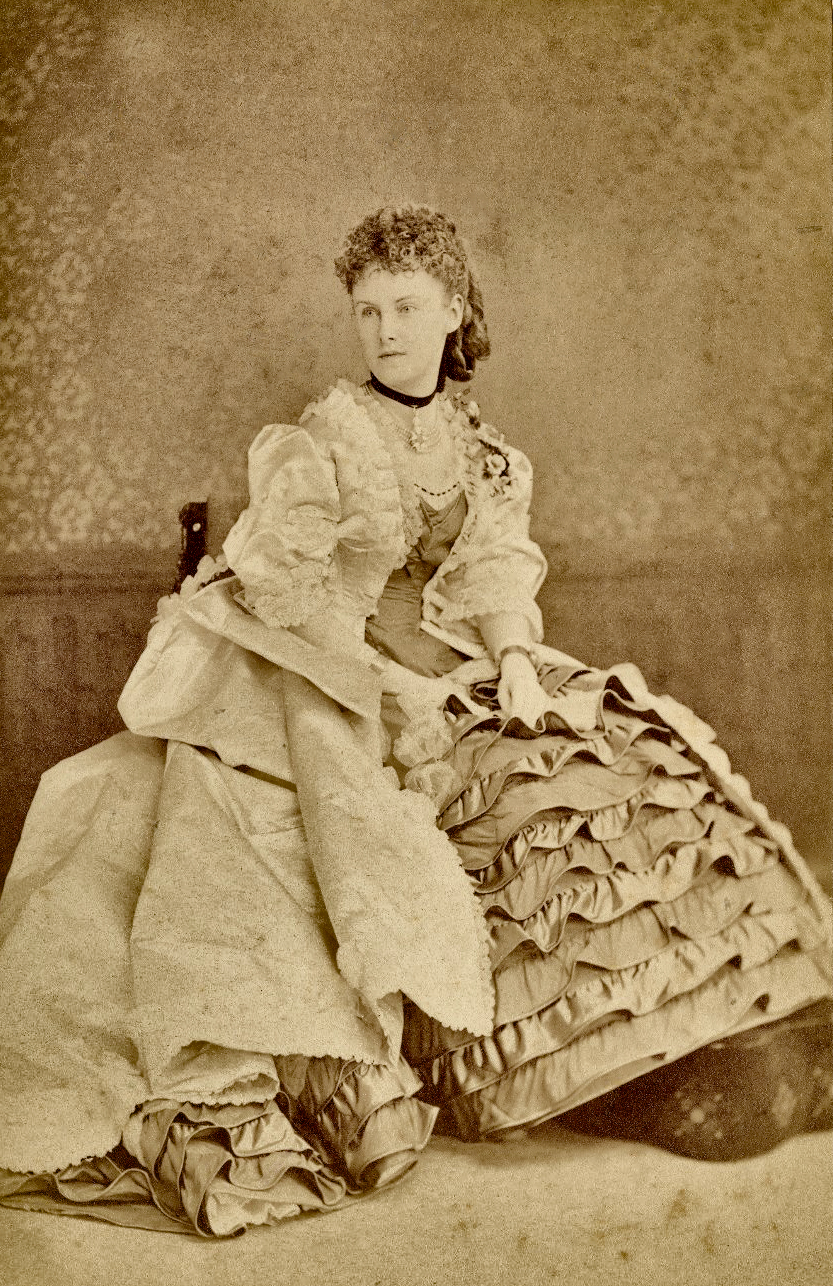 Studio portrait of Rosalie Osborne Bierstadt, seated on a chair. Photograph date unknown. Rosalie was the wife of German-American landscape artist Albert Bierstadt by this time (in accordance with the Brooklyn Museum's title of the photograph).